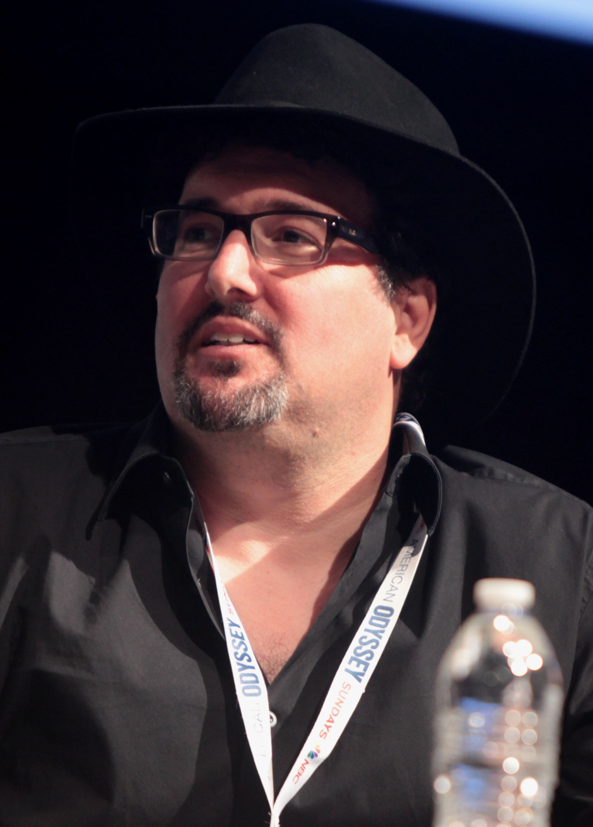 Mark A. Altman at the 2015 WonderCon at the Anaheim Convention Center in Anaheim, California.